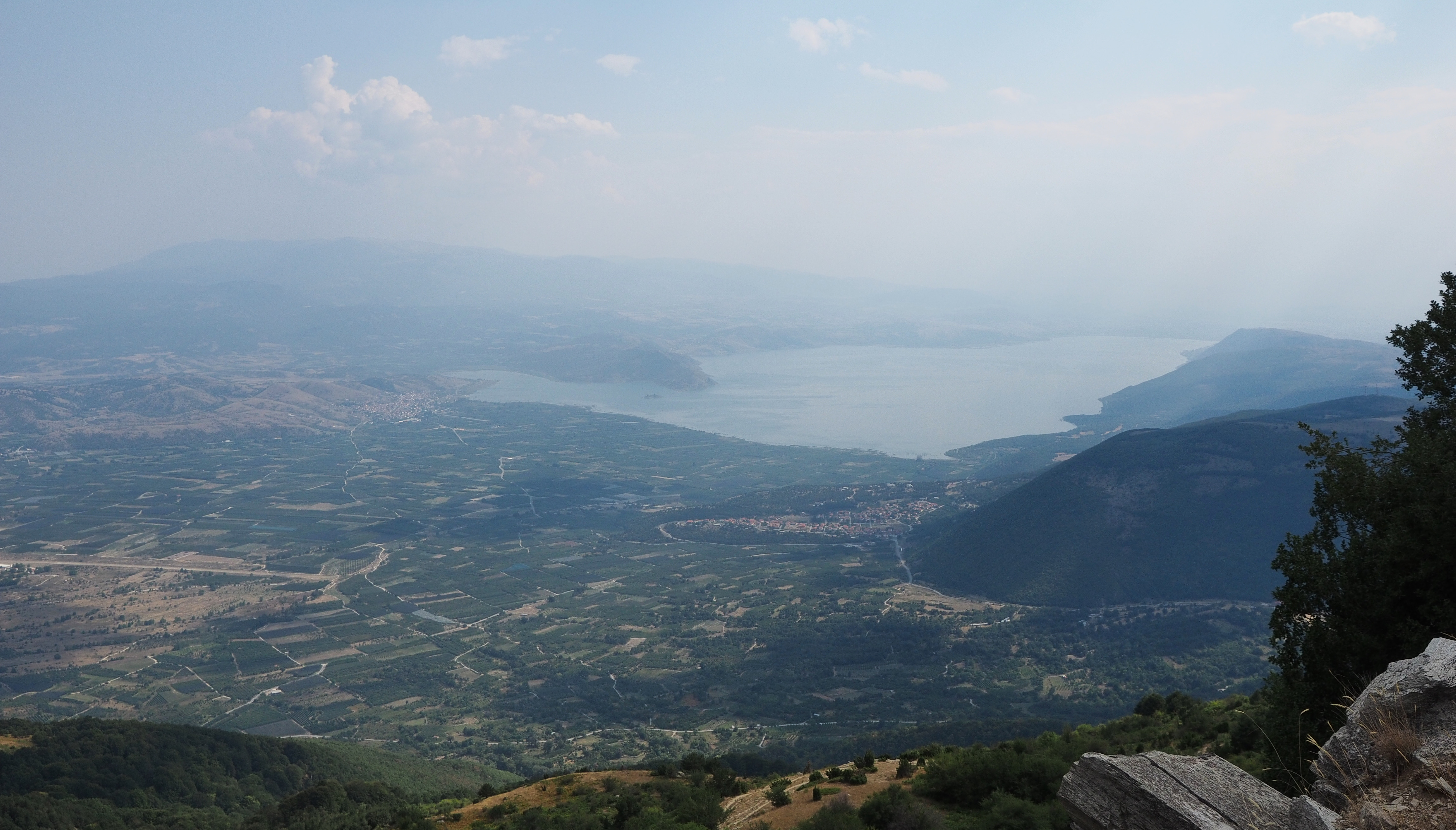 Lake Vegoritida (Greek- Λίμνη Βεγορίτιδα, Limni Vegoritida) Српски (ћирилица): Островско језеро, Грчка